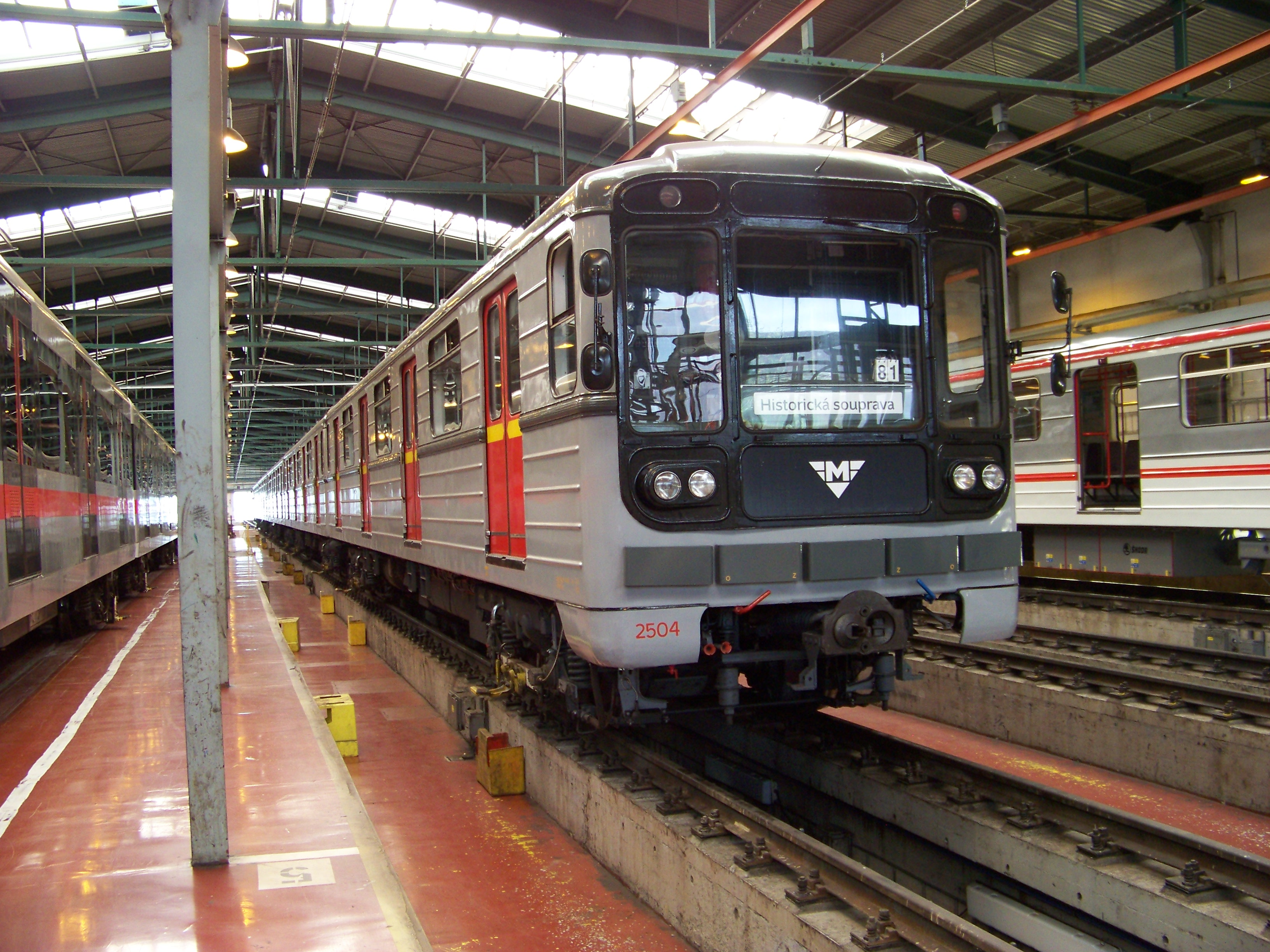 Prague-Strašnice, Czech Republic. Hostivař metro depot, open doors day.